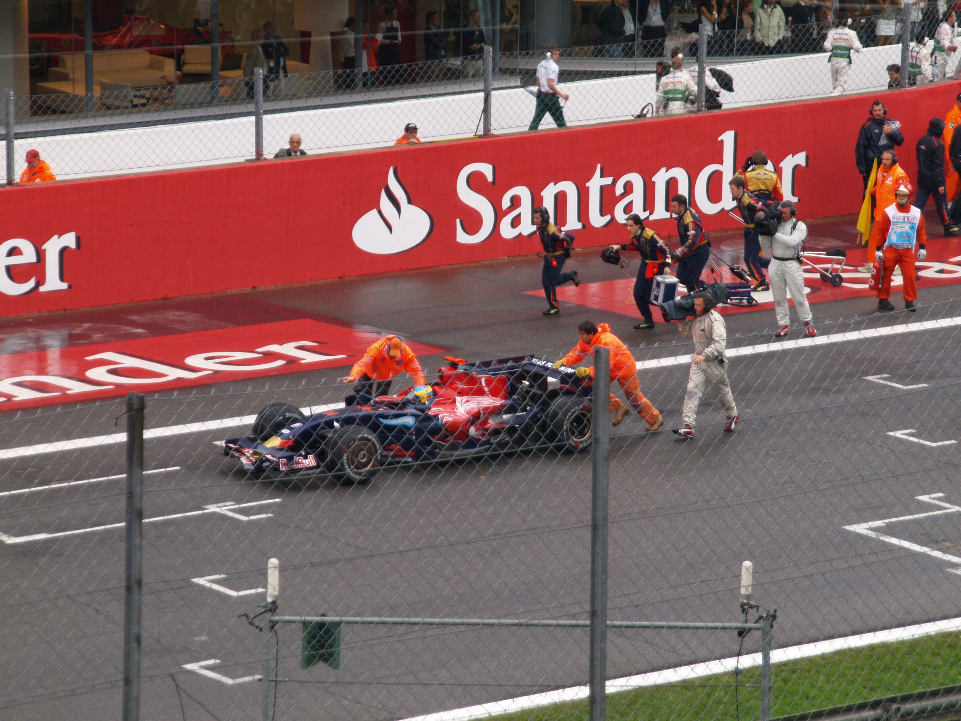 Sébastien Bourdais at 2008 Italian Grand Prix